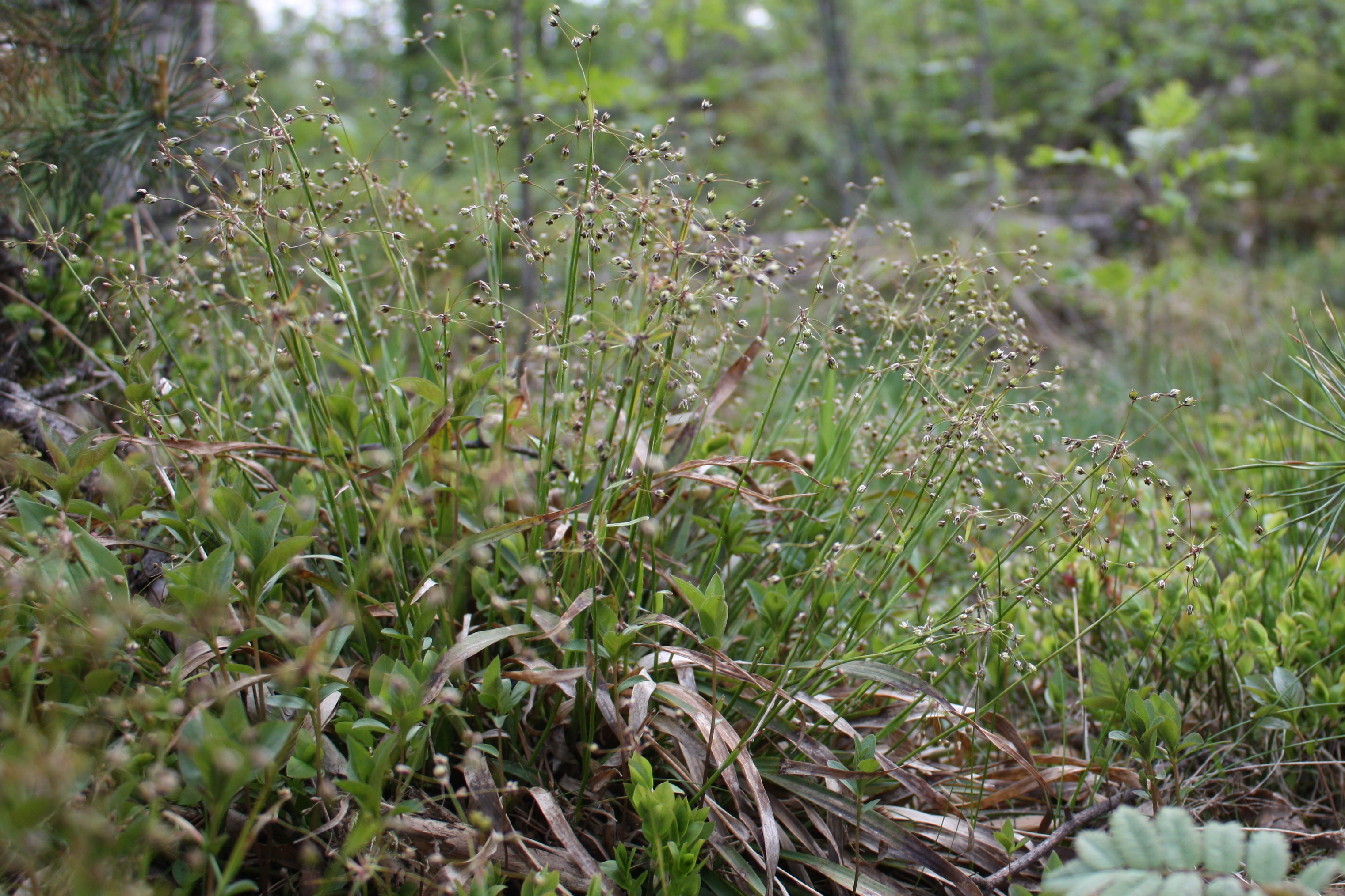 Hairy Wood-rush (Luzula pilosa) - Kerava, Finland